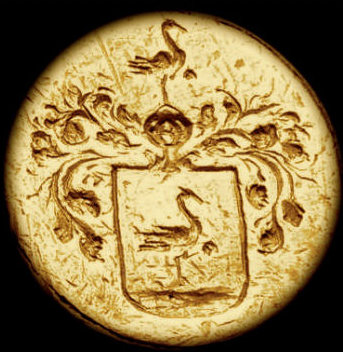 Seal of the Luedke Family